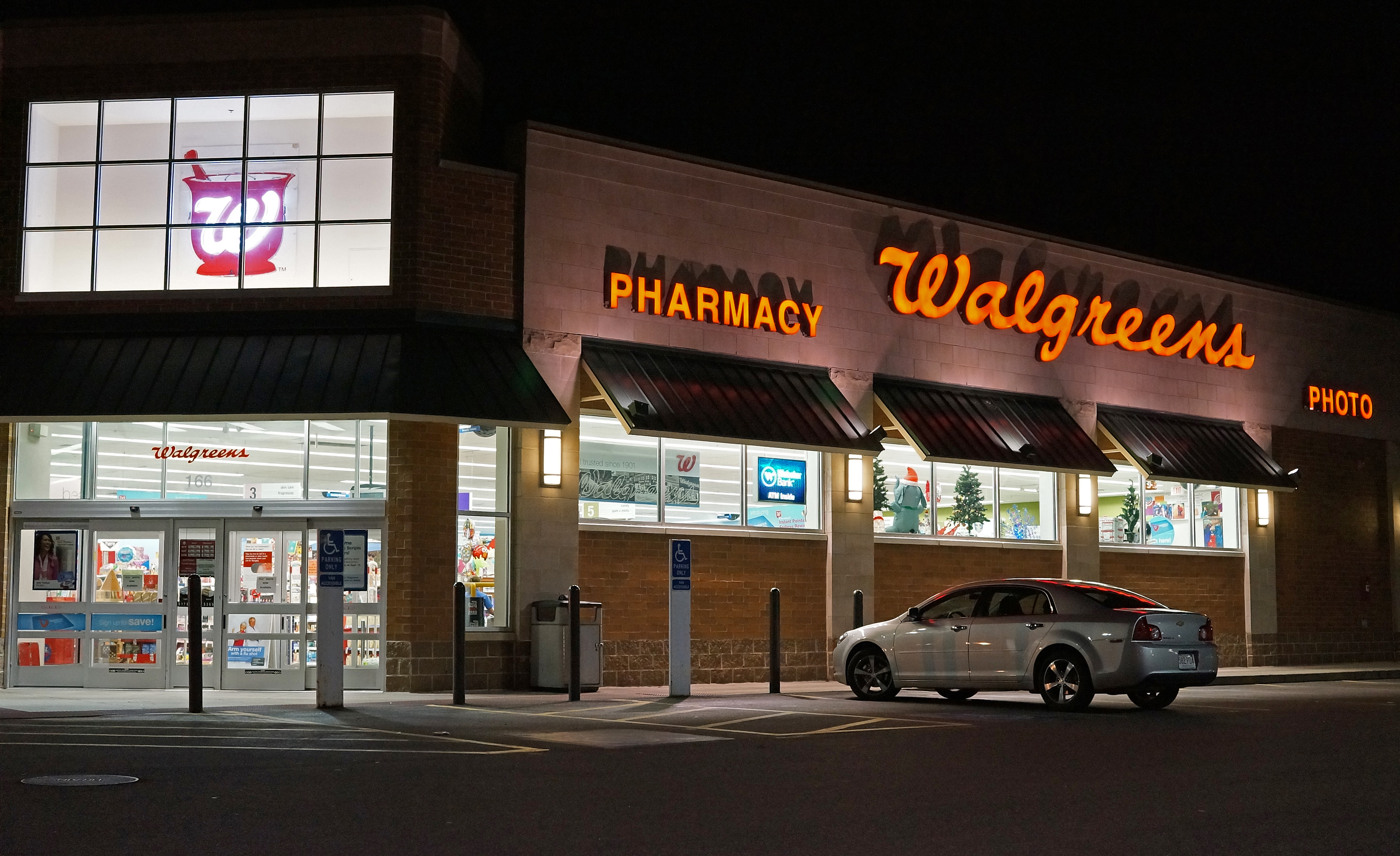 Walgreens located on Rt.1 South, Saugus, Massachusetts USA. Night view.